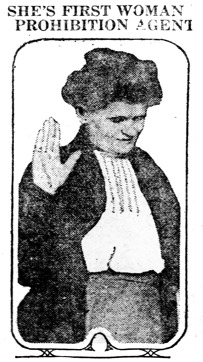 Georgia Hopley, first woman prohibition agent, taking the oath of office at prohibition headquarters in Washington, D.C.